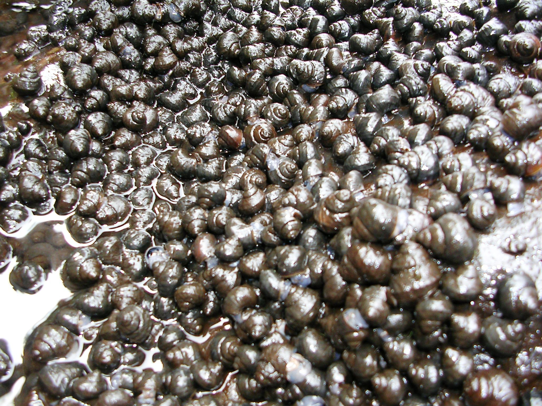 Photo of number of Tulotoma magnifica on mud.